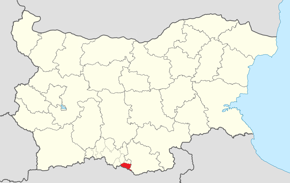 Location map of Zlatograd Municipality within Bulgaria and Smolyan province